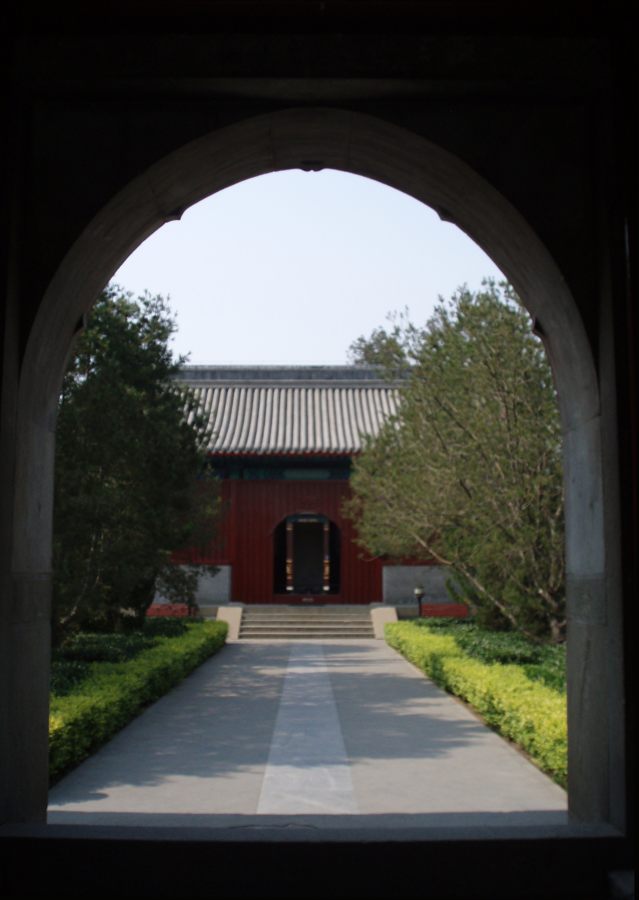 The Four Heavenly Kings Hall viewing from the entrance of Big Bell Temple. 中文（香港）: 從大鐘寺山門向寺內天王殿望。